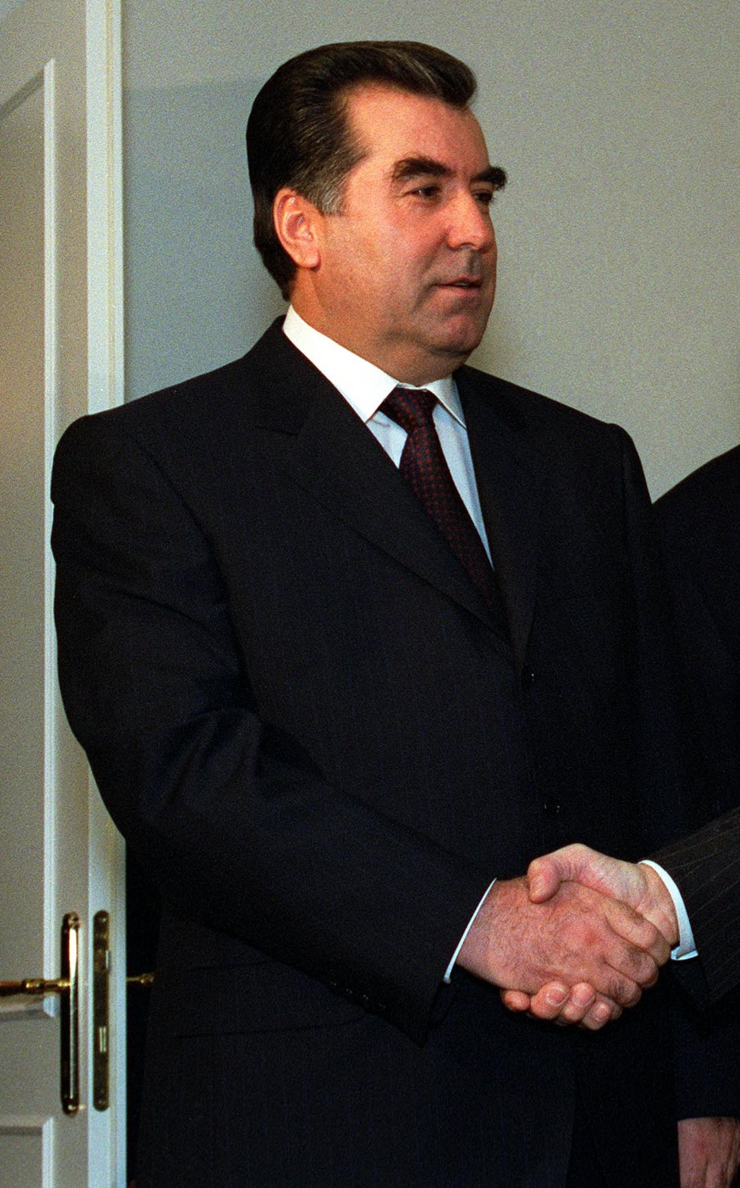 Tajik President Emomali Rahmon during a visit of US Secretary of Defense Donald Rumsfeld in Dushanbe, November 3, 2001.